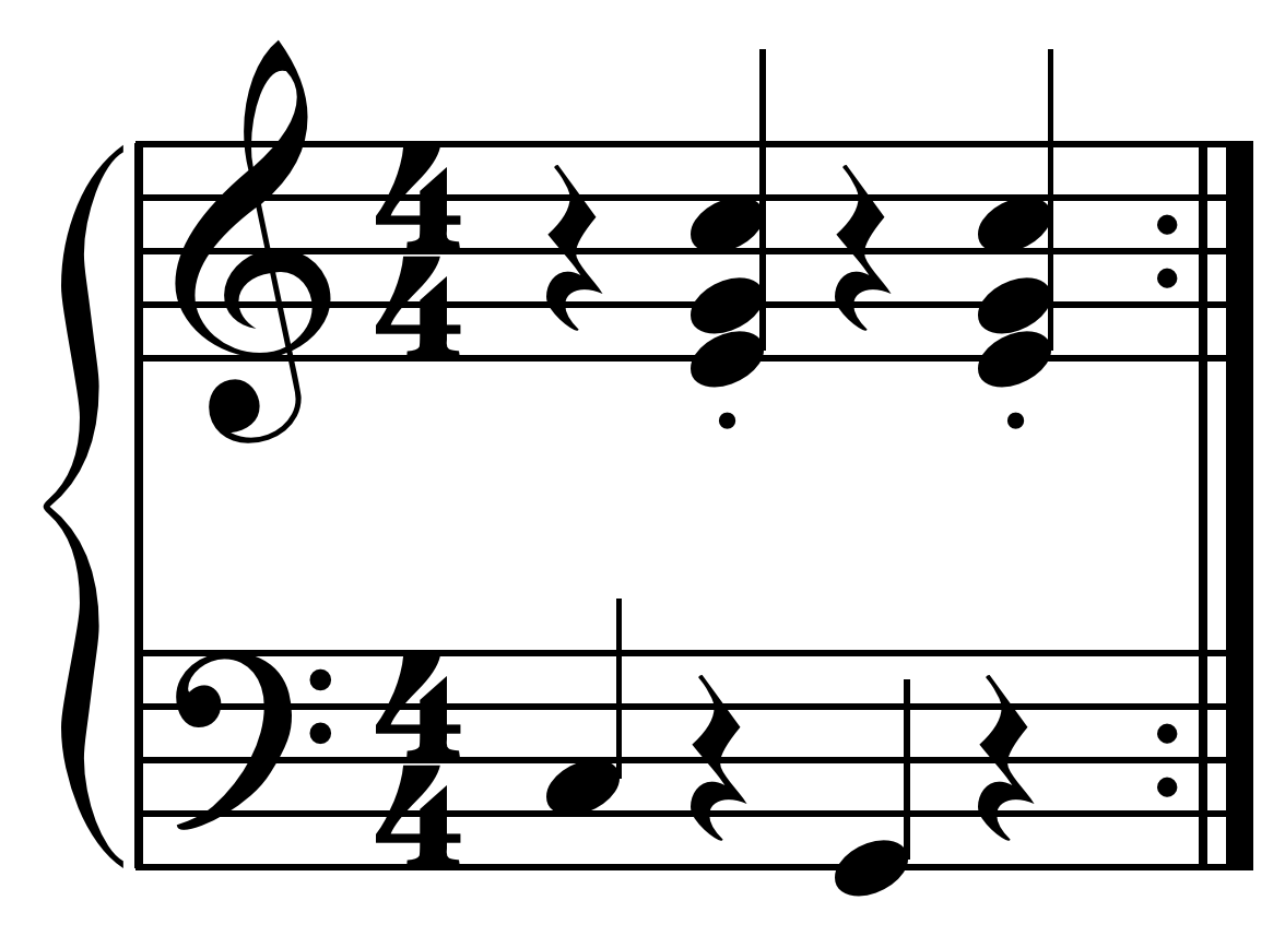 Oom-pah played by accordion on C major chord with alternate bass. Created by Hyacinth (talk) 00:30, 3 April 2010 using Sibelius 5.